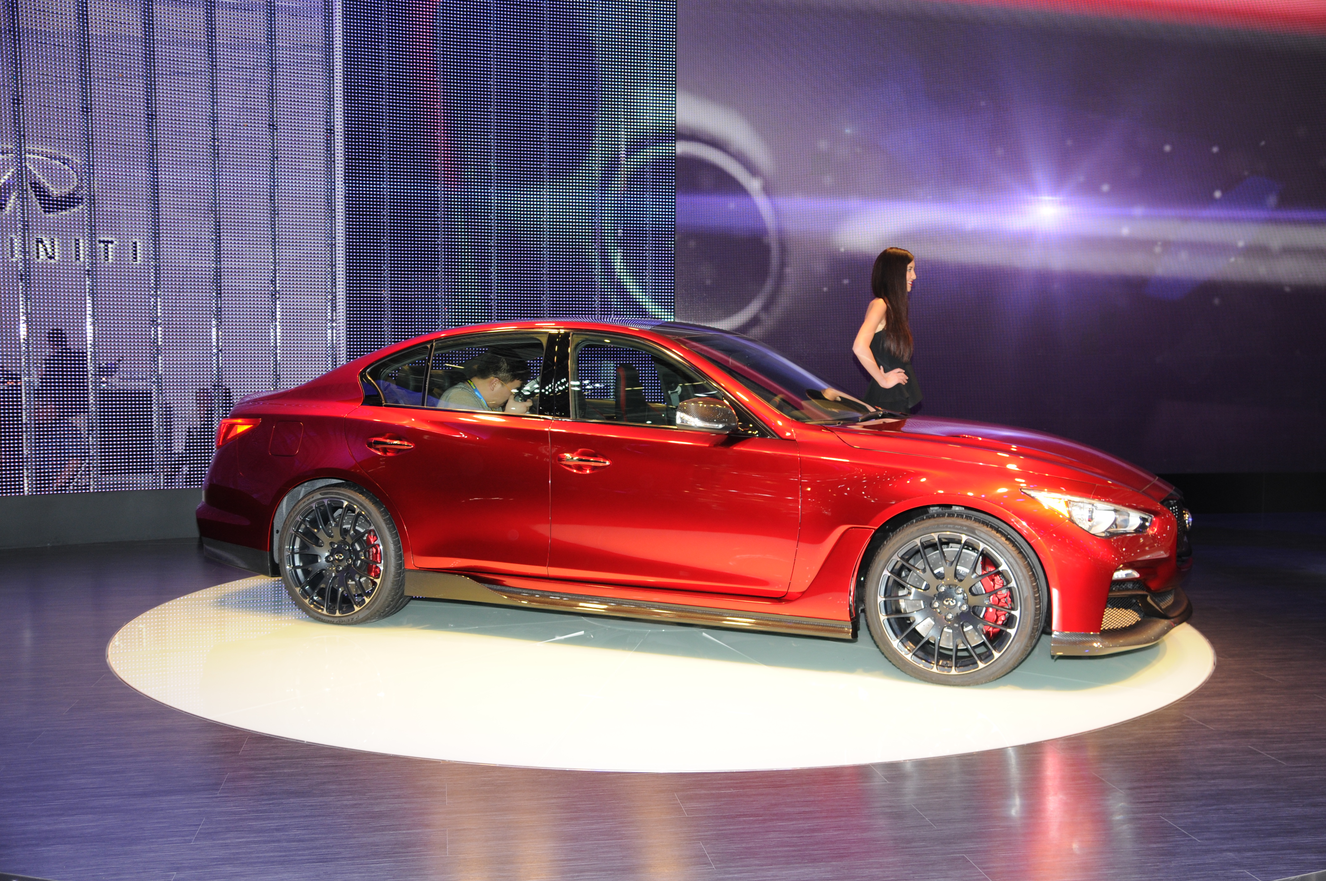 Geneva Motor Show 2014 (photo taken on the first press day)